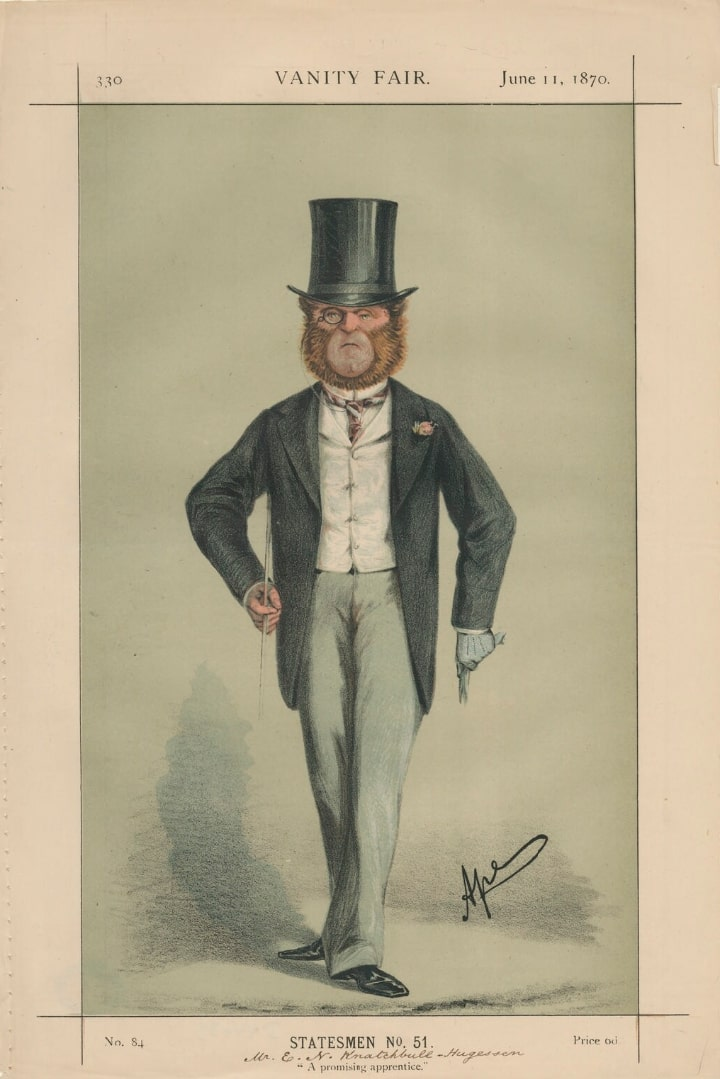 Caricature of Mr EH Knatchbull-Hugessen MP. Caption read "A promising apprentice".